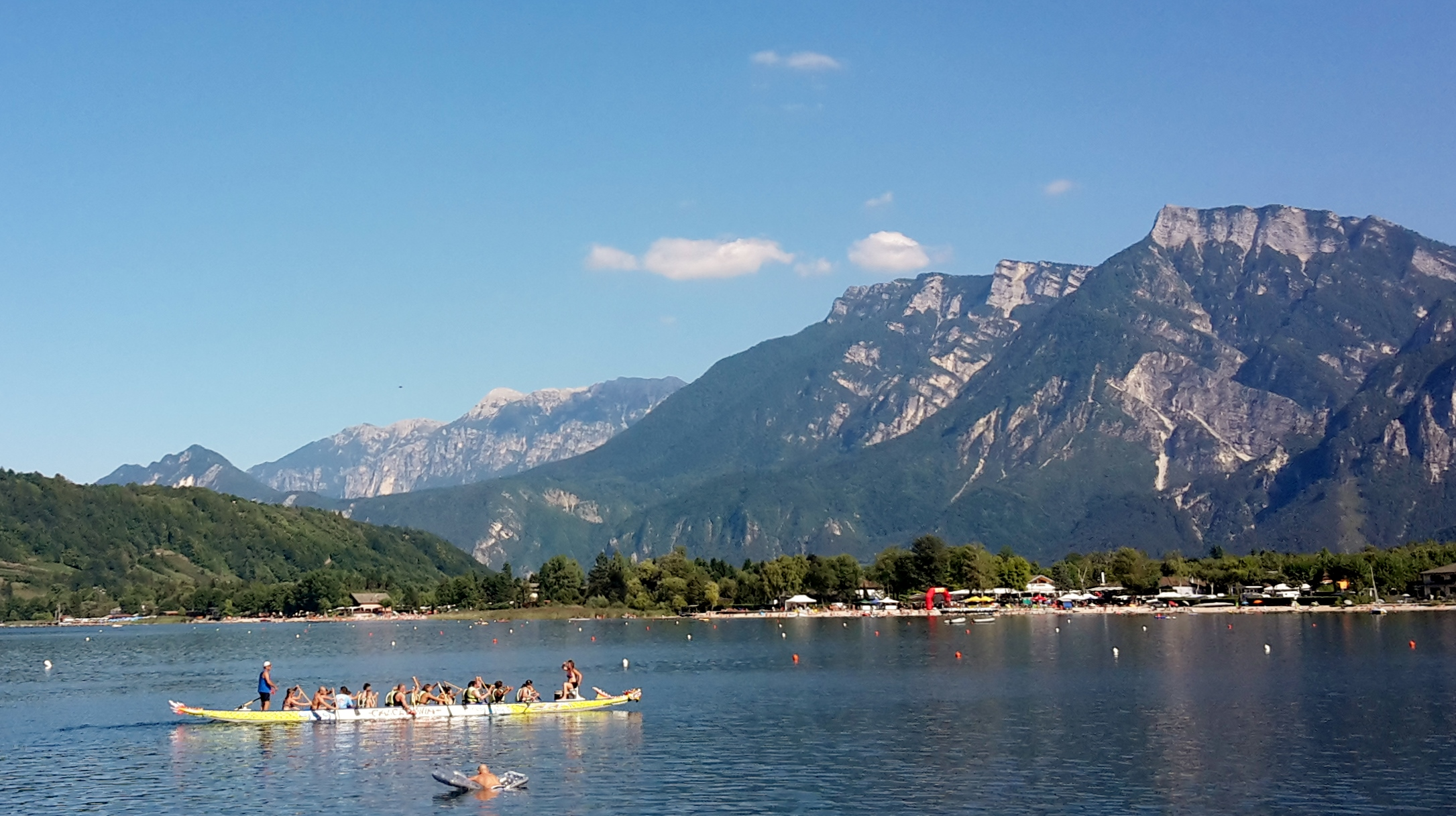 Dragonboat at Caldonazzo lake